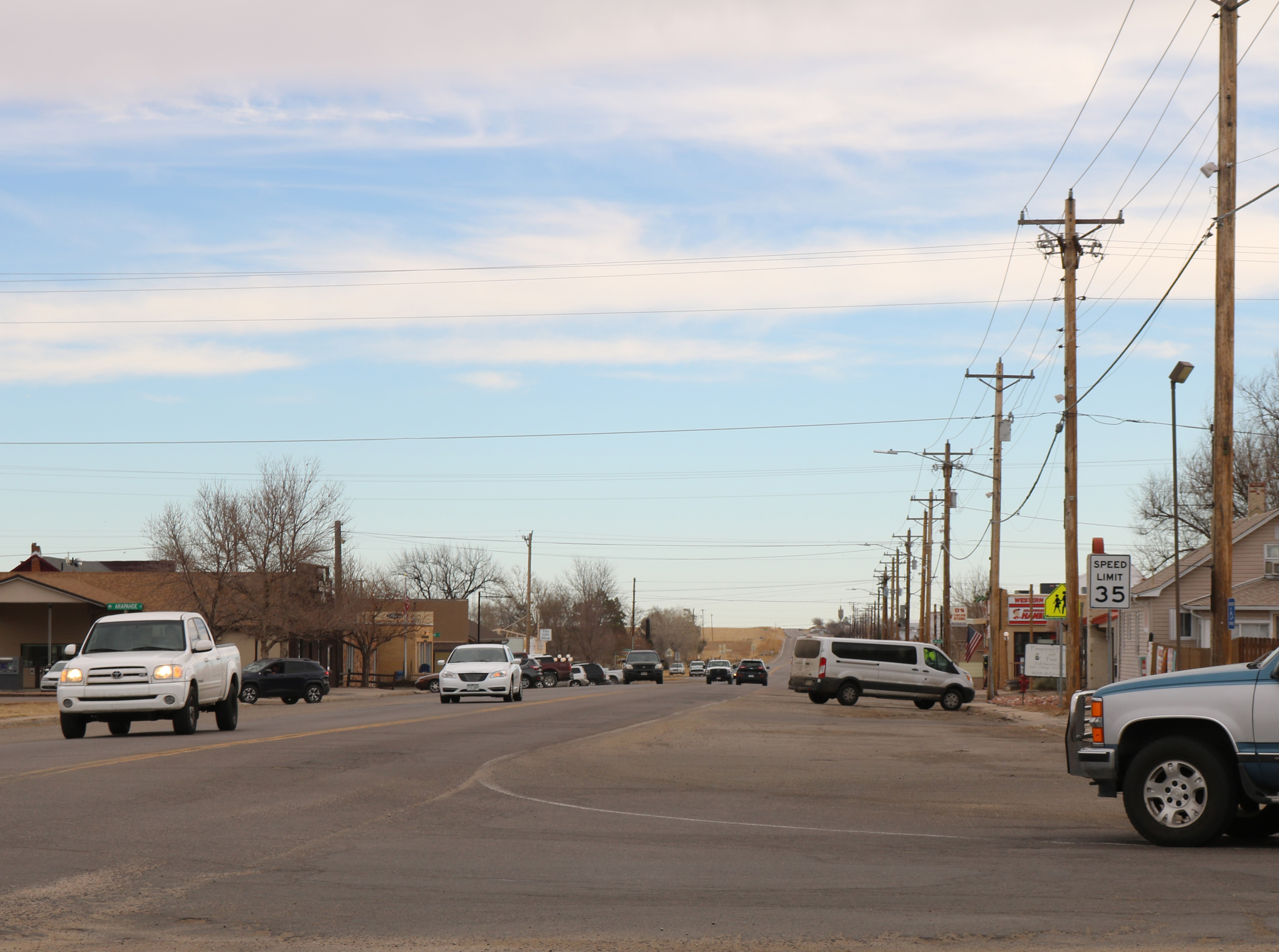 15th Avenue in Strasburg, Colorado. The view is to the east from about Wagner Road. 15th Avenue divides Adams County on the left (north) side of the picture from Arapahoe County on the right (south) side. 15th Avenue is also called Colfax Avenue and Highway 36.